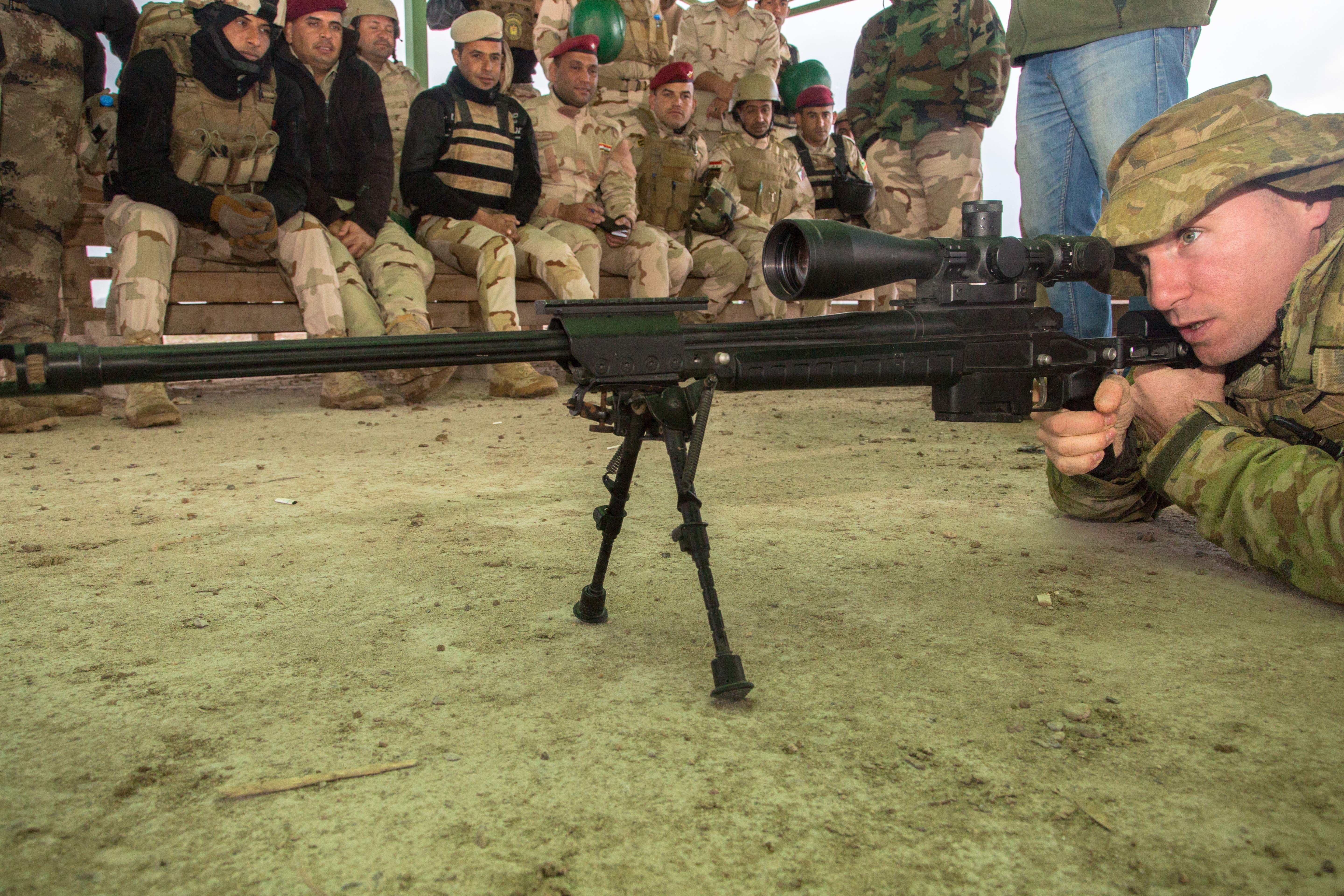 An Australian army trainer demonstrates how to operate a T-5000 sniper rifle to Iraqi security forces soldiers during weapons training at Camp Taji, Iraq, March 4, 2017. Coalition forces teach ISF basic combat skills in support of Combined Joint Task Force – Operation Inherent Resolve, the global Coalition to defeat ISIS in Iraq and Syria. (U.S. Army photo by Spc. Christopher Brecht)